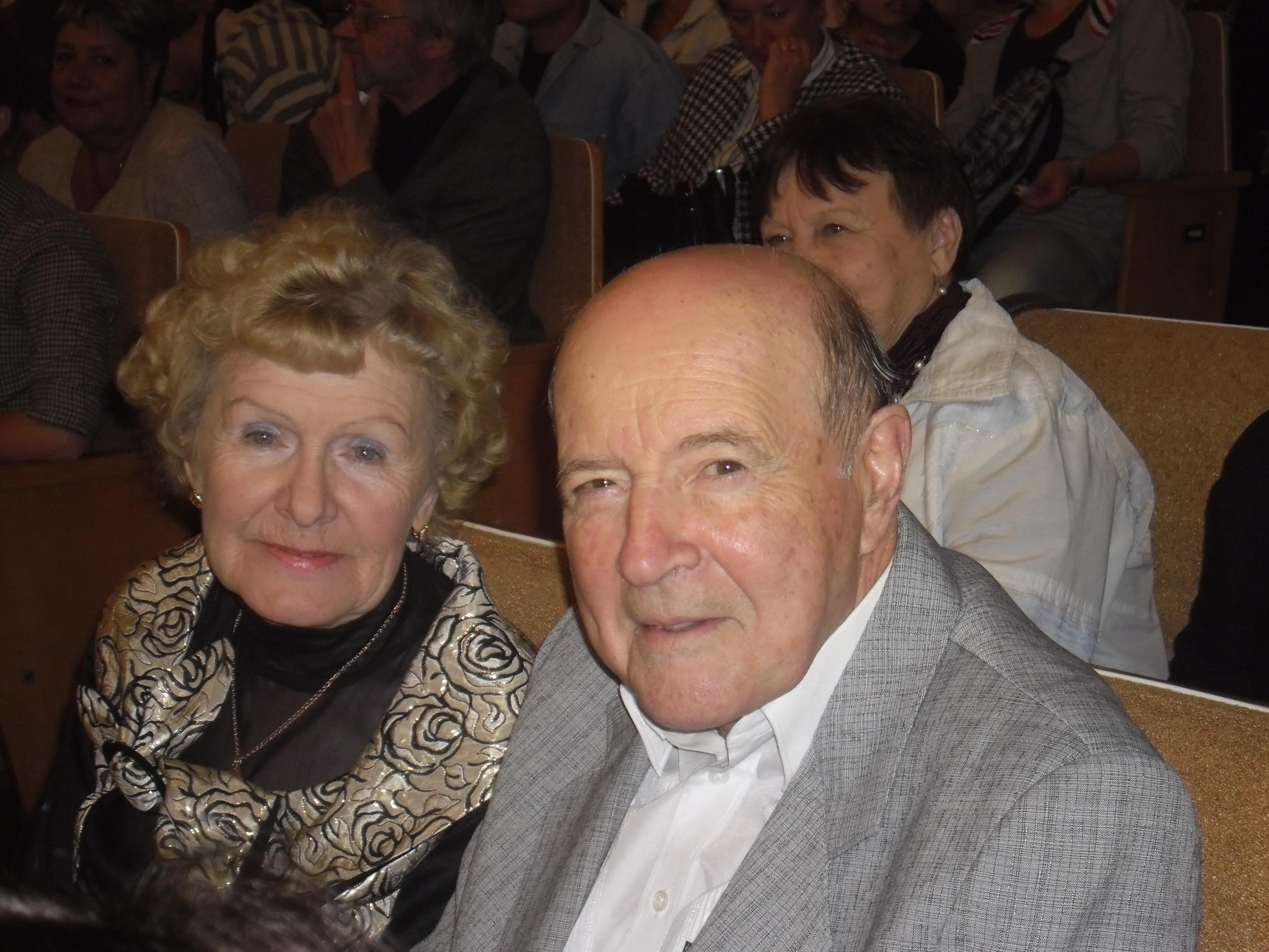 Singer and professor Lyudmyla Georgievna Tsurkan and musicologist Ilya Lvovich Glauberman in the Great Hall of the Kharkov University of Arts.